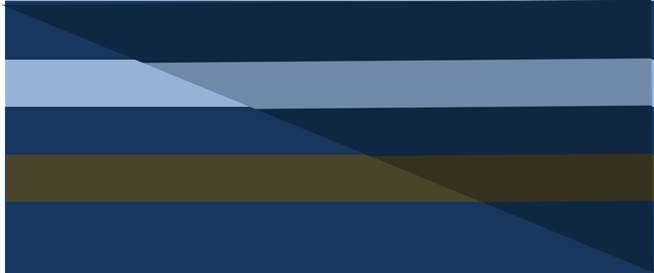 CII colours